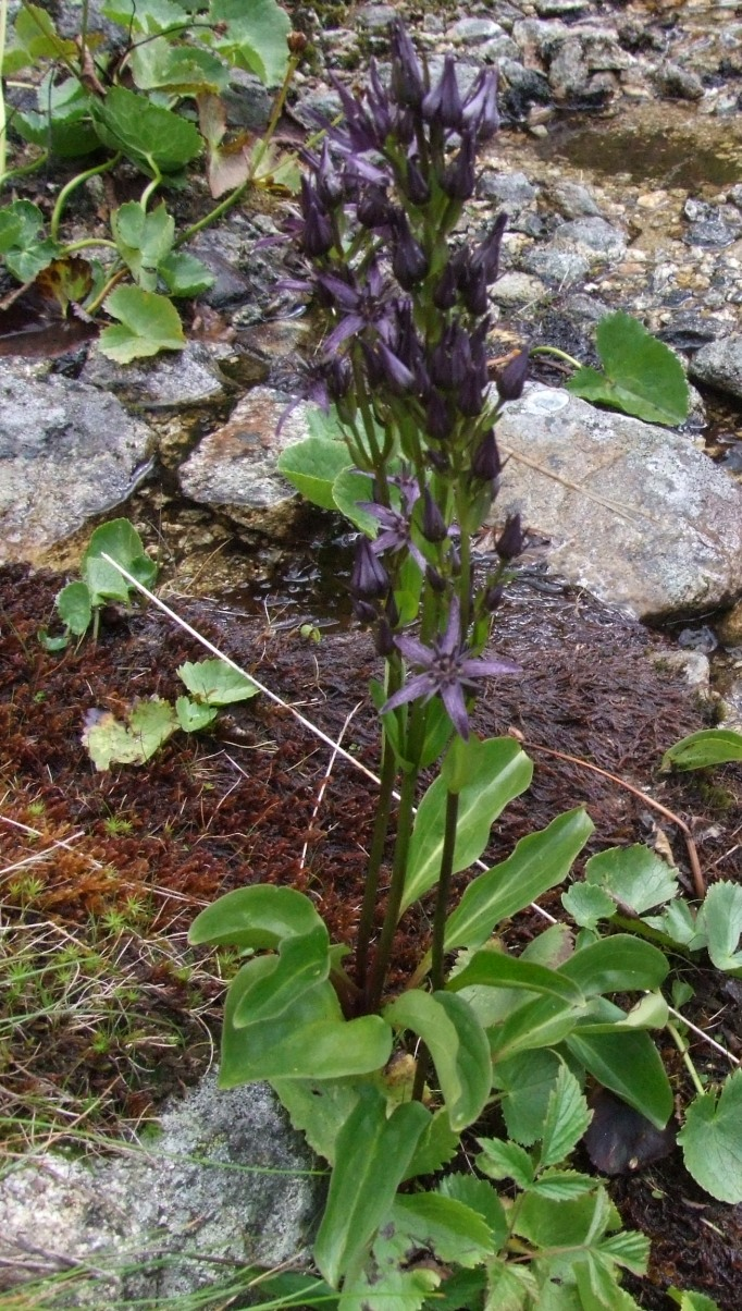 Swertia perennis